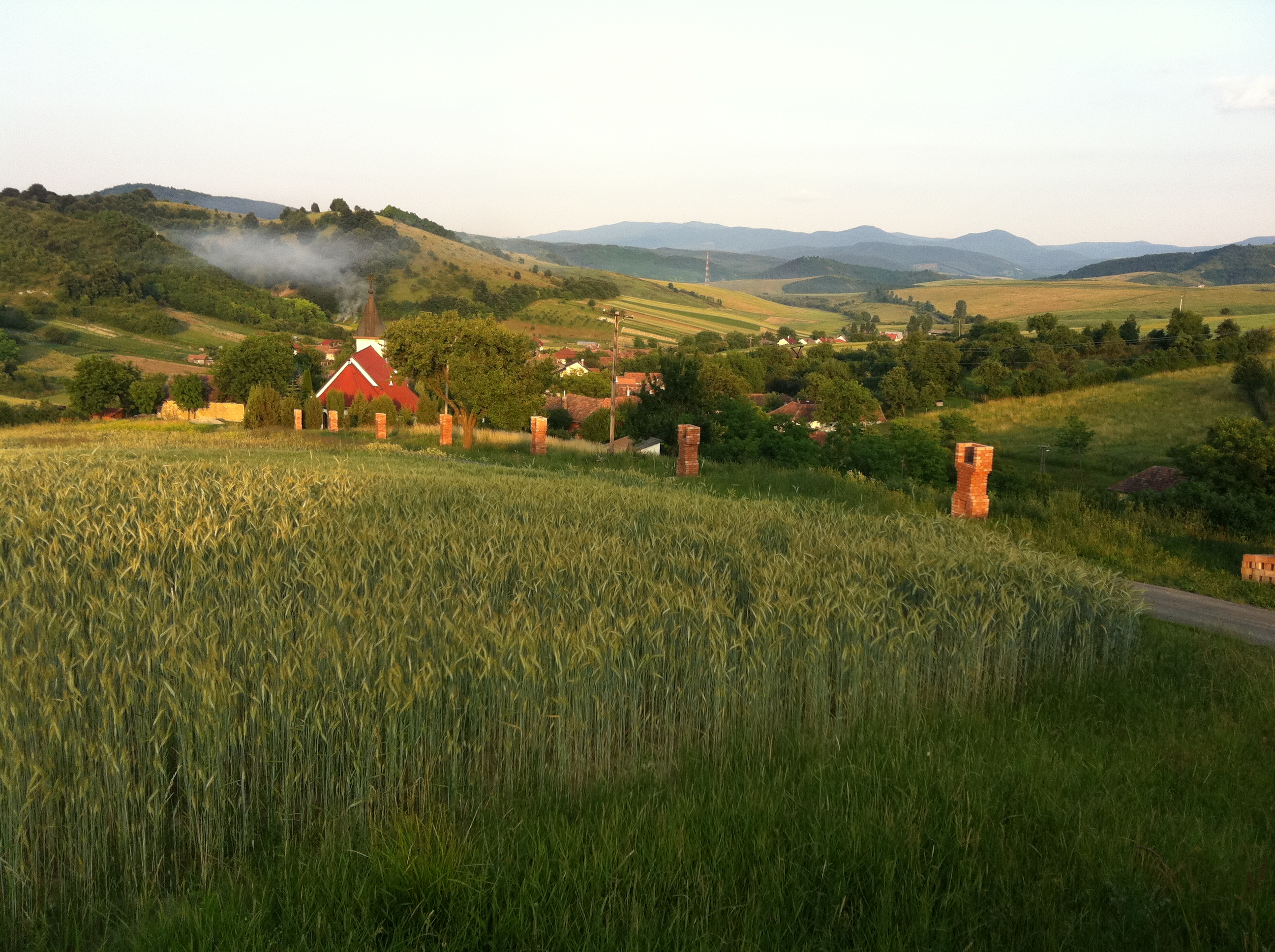 Kisbárkány, Hungary. View from the Calvary monument. Unknown